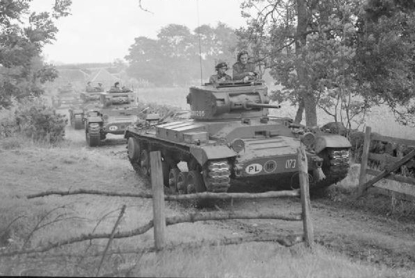 Allied Forces in the United Kingdom 1939-45 Valentine tanks of the 1st Polish Corps on exercise in Scotland.